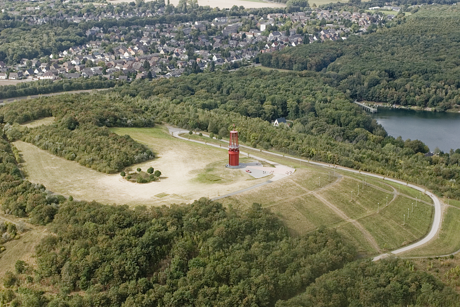 The Halde Rheinpreußen is a spoil tip in Moers; aerial photo